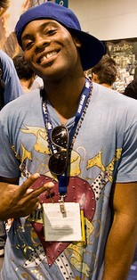 Kel Mitchell at the 2008 Comic Con.